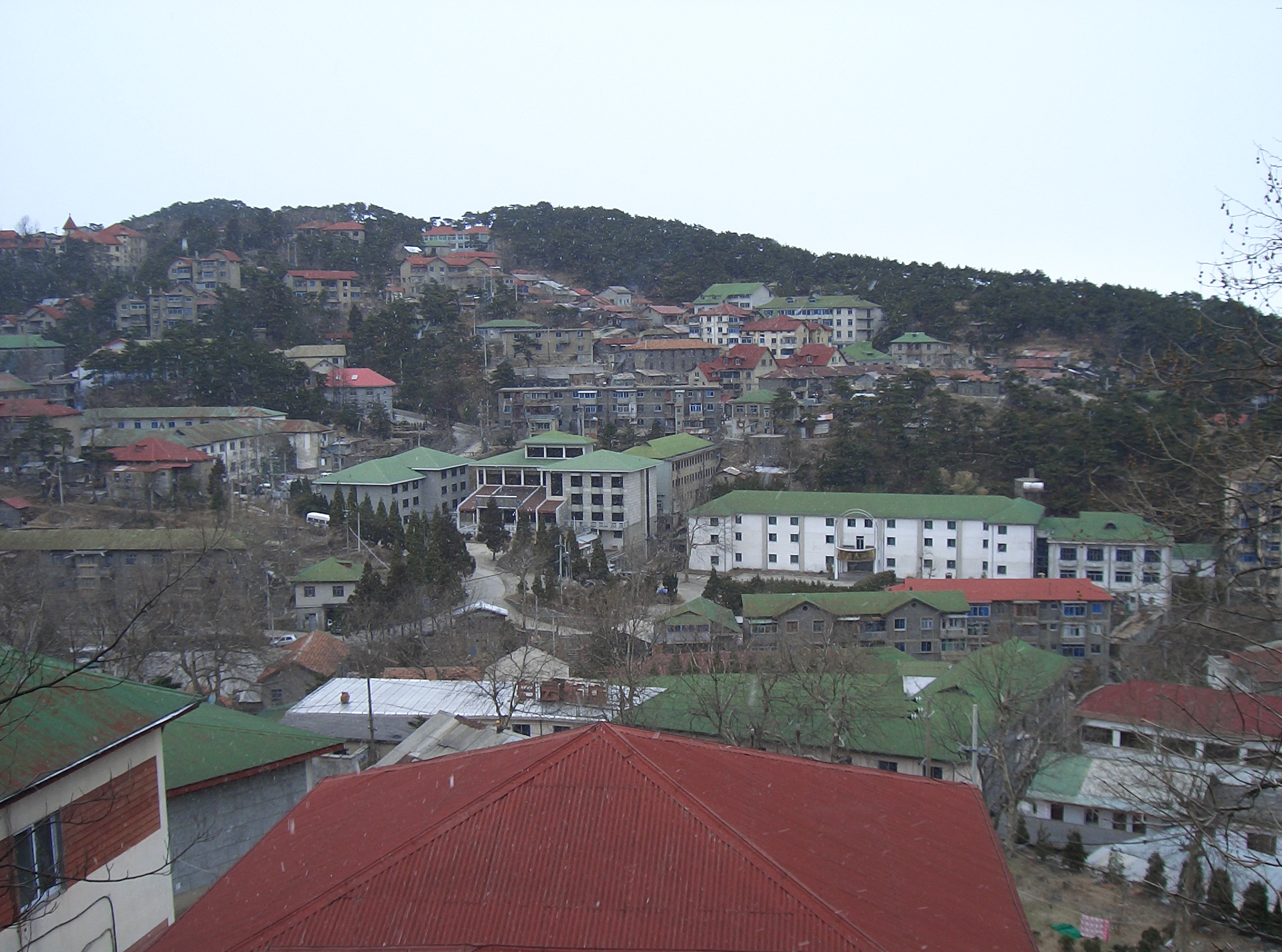 Snow starts to fall as winter falls on the resort town of Lushan (servicing the mountain of the same name), Jiangxi province, China.